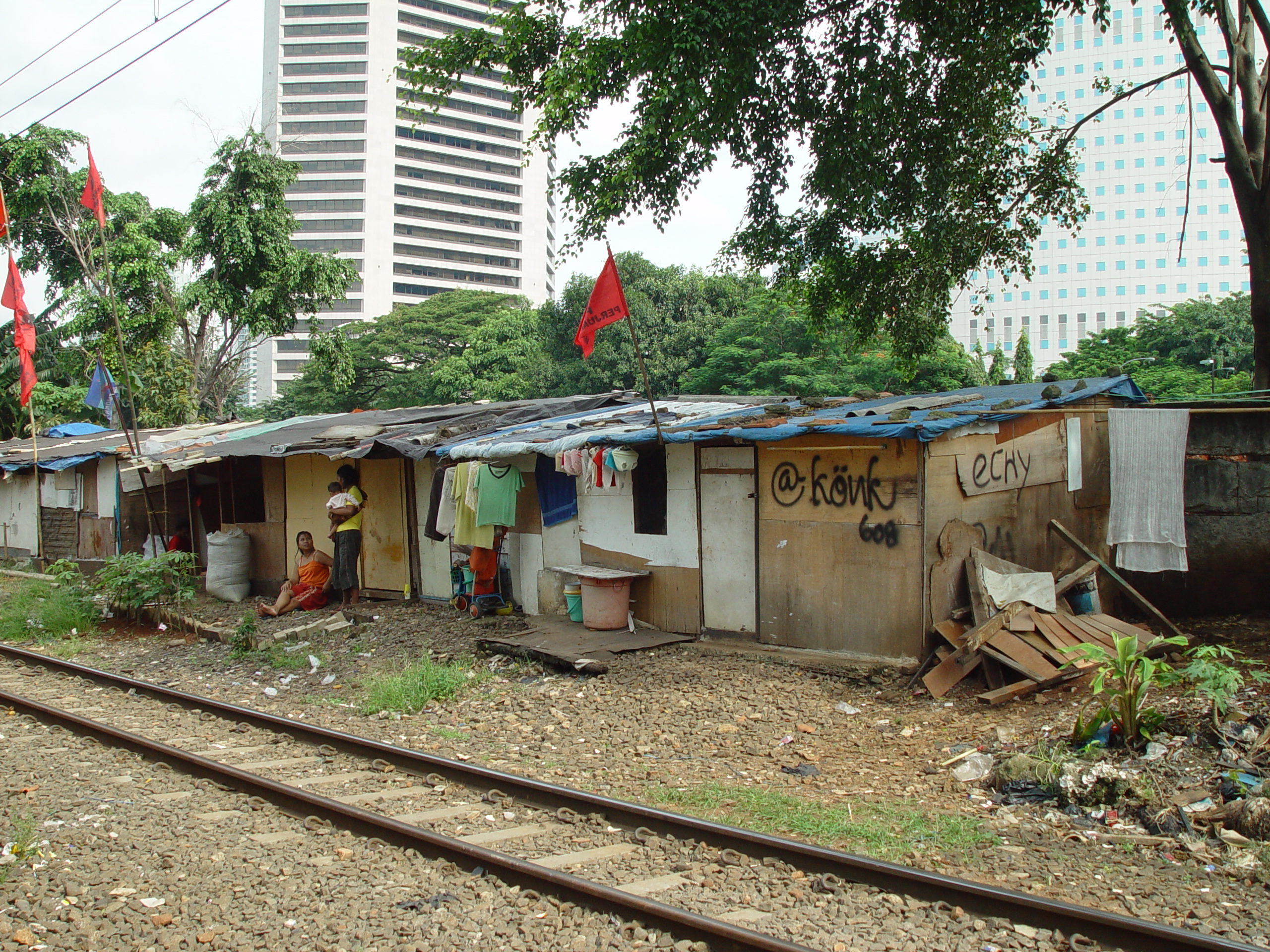 Slum life, Jakarta Indonesia.